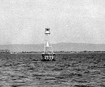 Wonga Shoal Lighthouse